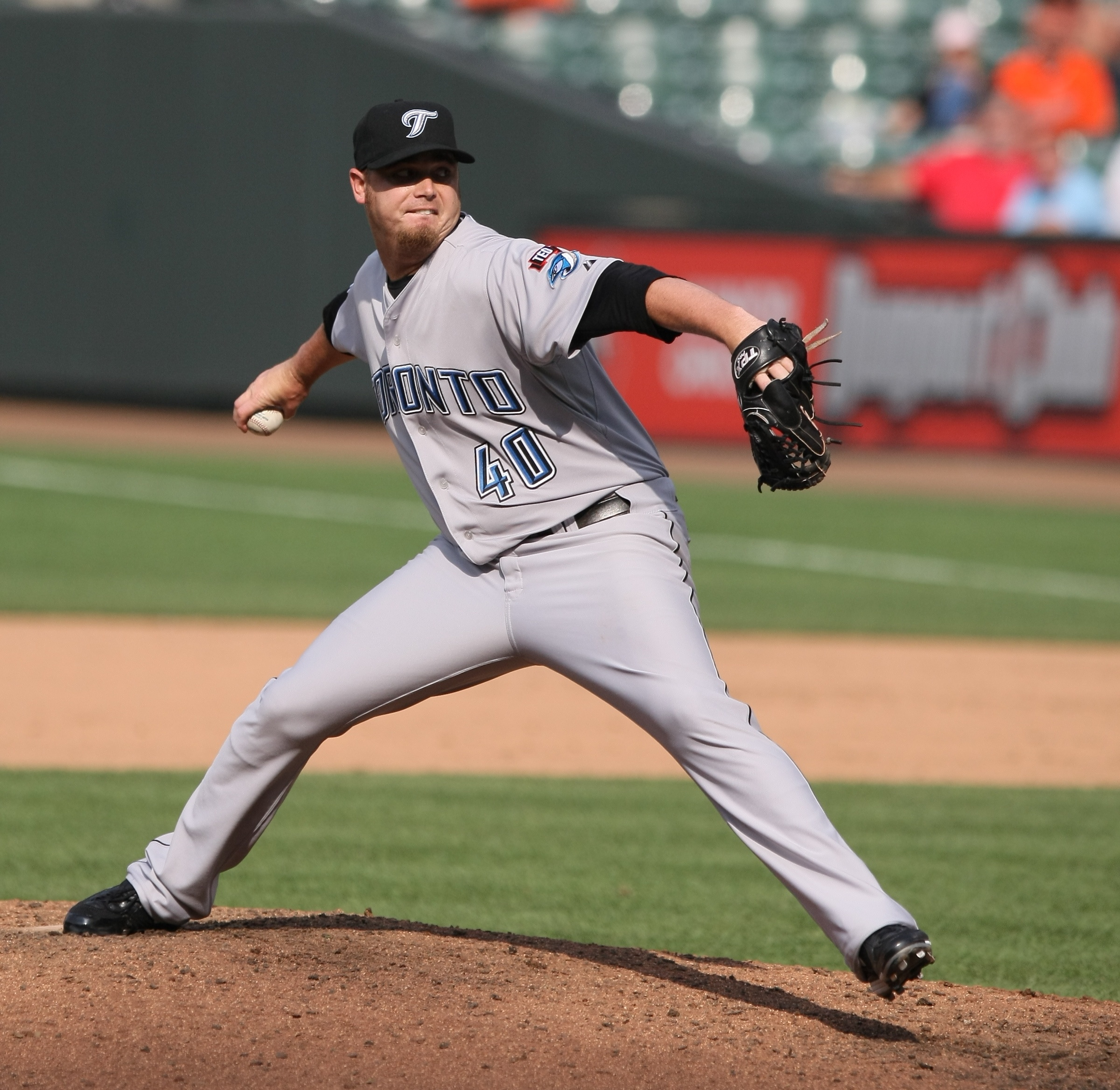 Brian Wolfe